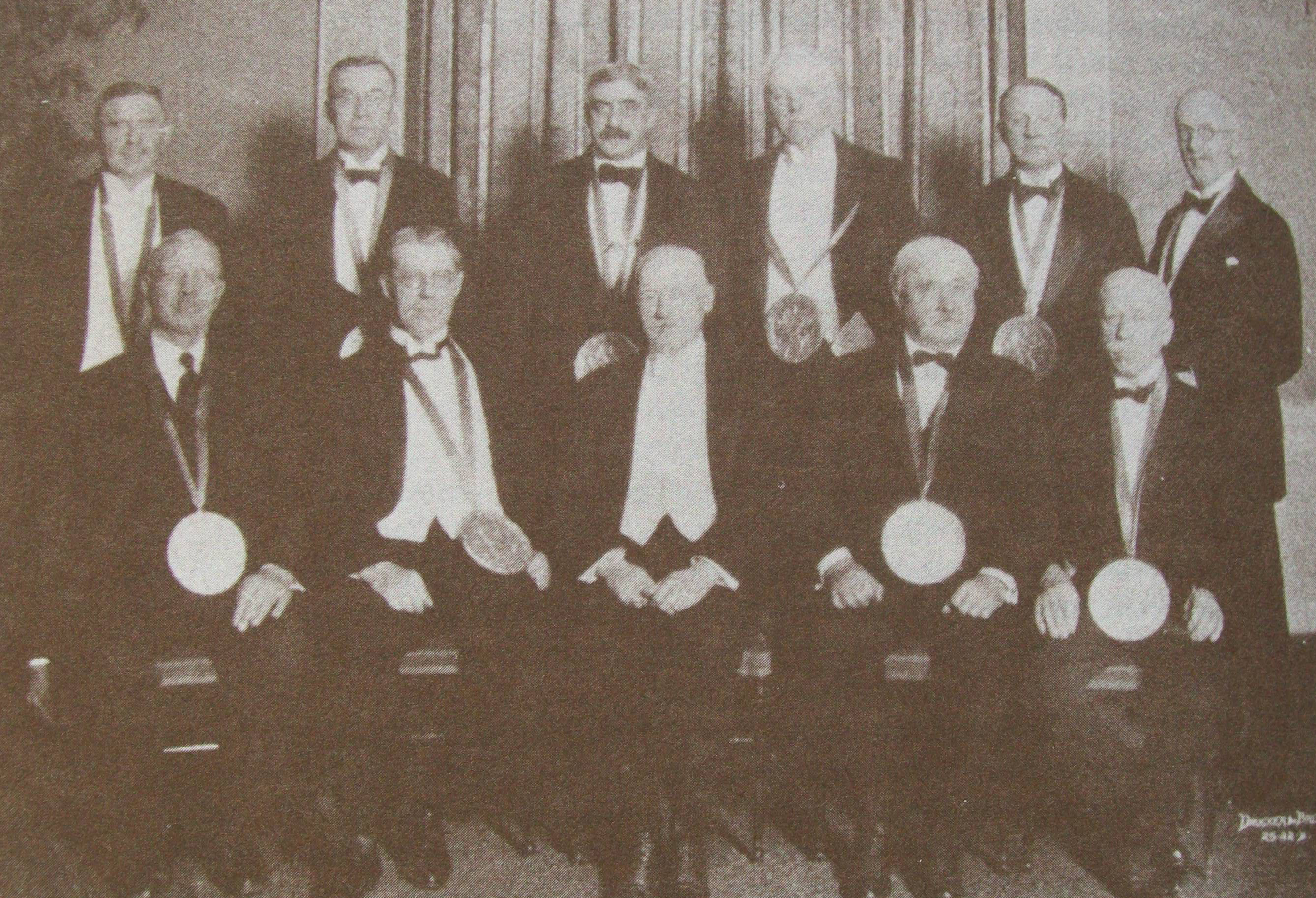 American automotive pioneers receiving gold medals from the Automobile Chamber of Commerce at a January 1925 meeting. Elwood Haynes, Edgar and Elmer Apperson, Henry Ford, and others are recipients.